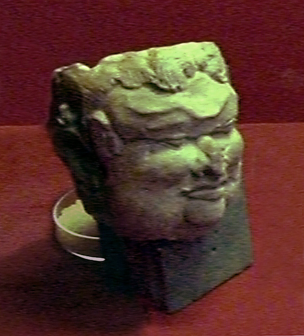 Trowulan Museum, Trowulan, East Java, Indonesia. Fragment of terracotta head figure. Believed to be the portrait of Gajah Mada, the prominent figure and prime minister of Majapahit empire.